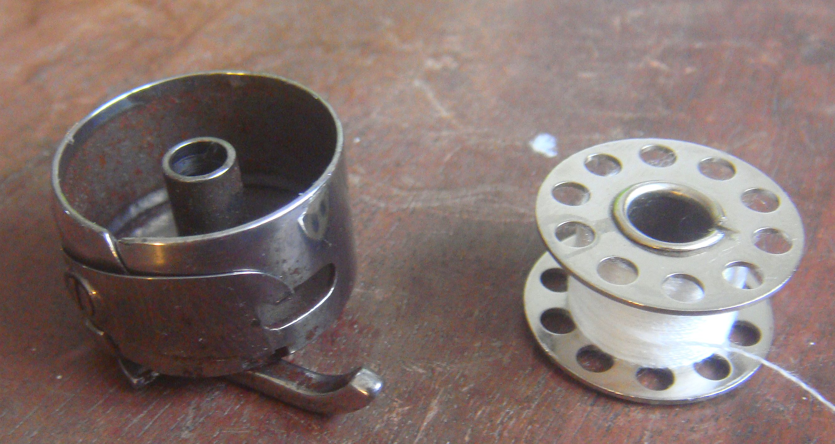 Hua Nan sewing machine purchased in Haikou, Hainan, China, second hand around 2018. The motor was new. The normal price for such a sewing machine at this time was around 175 RMB for the machine and an additional 75 RMB for the motor (total 36 USD).